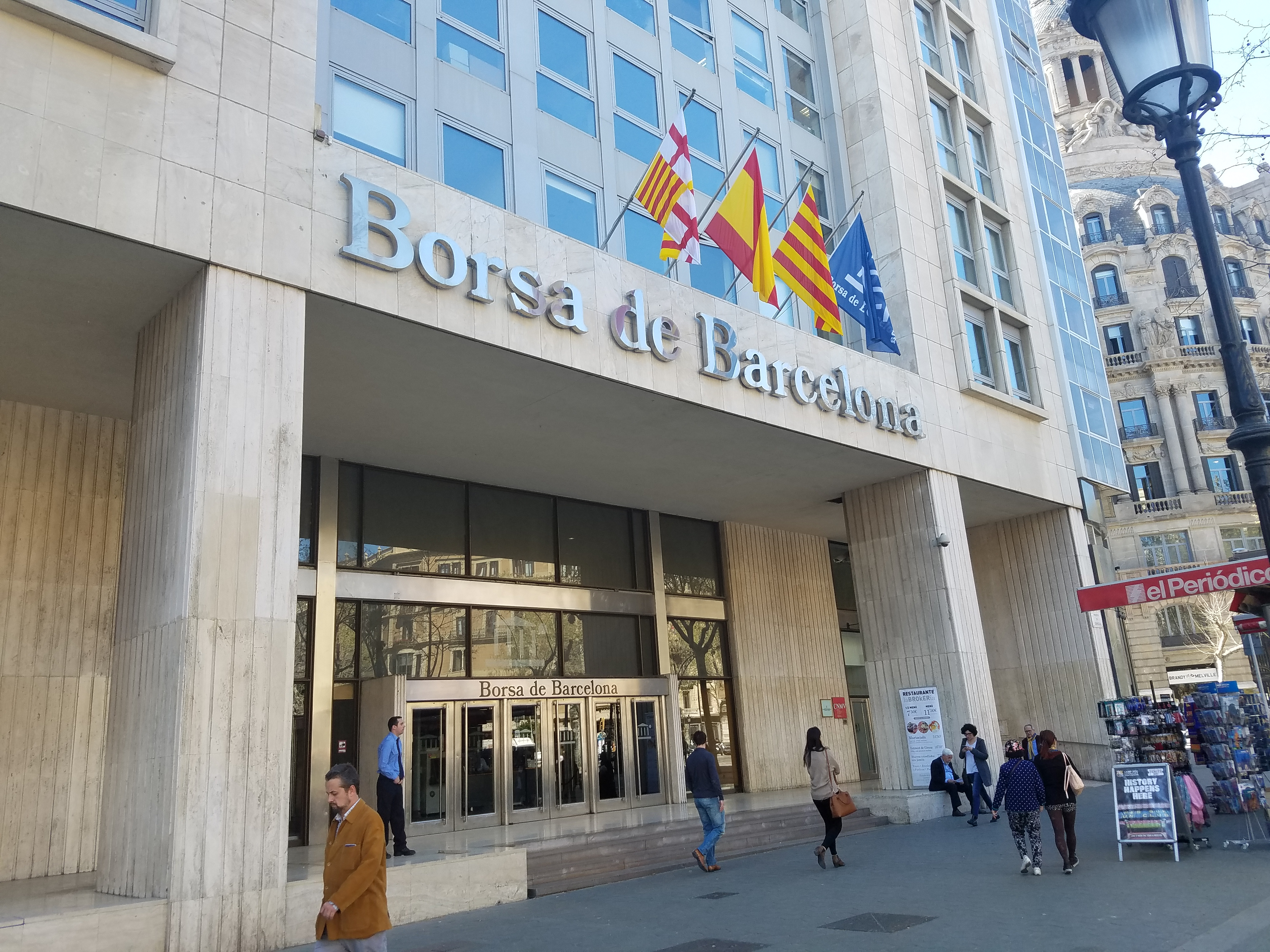 Front doors of the Bolsa de Valores in Barcelona.